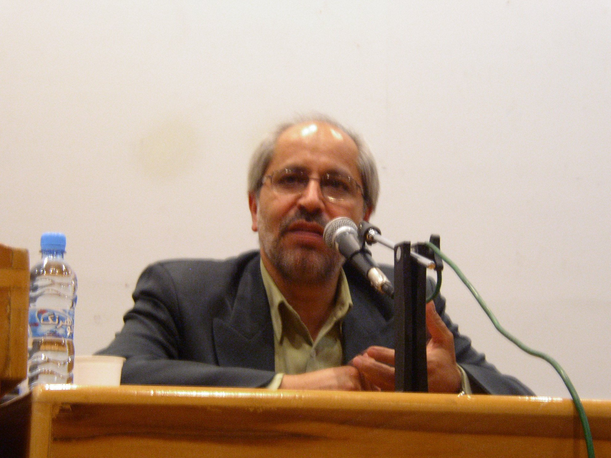 Masoud Nili, Sharif University.